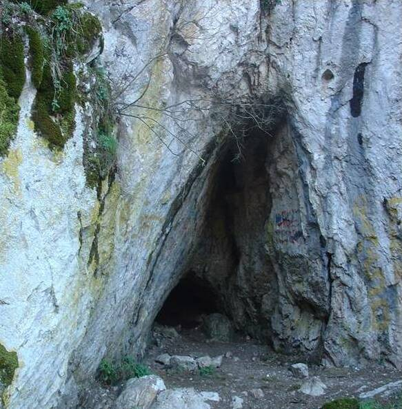 shpella